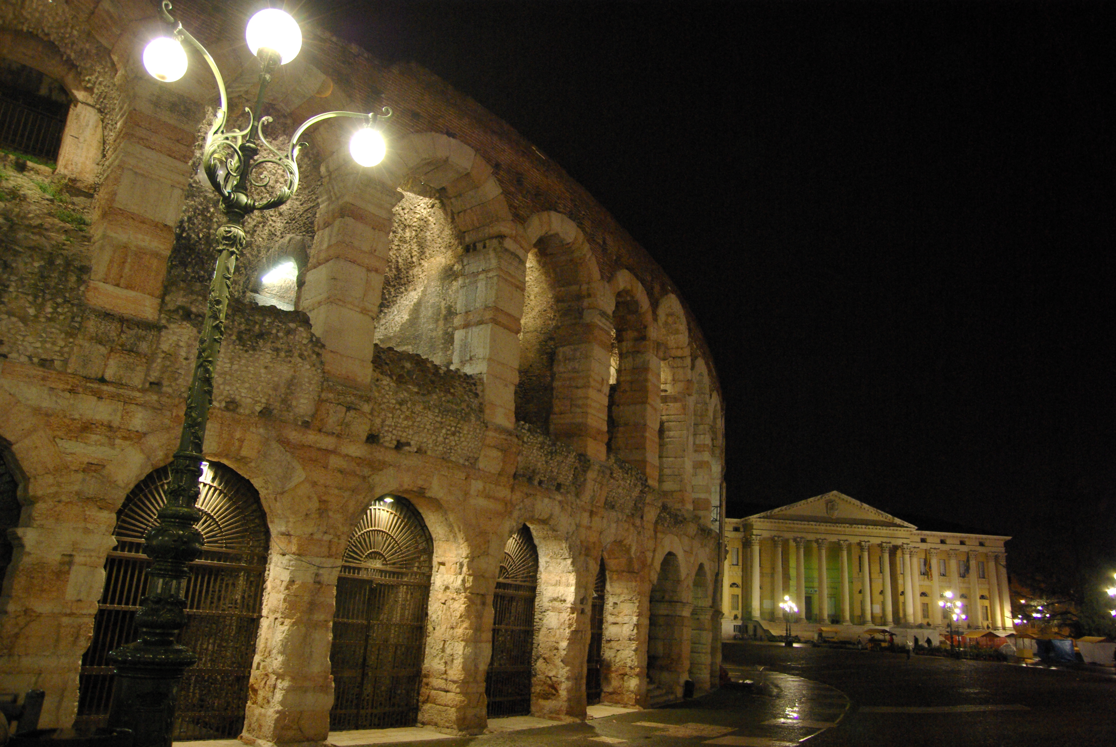 Earth Hour 2013 at the Verona Arena amphitheatre, Piazza Bra, Verona, Italy.(Pentax K10D camera with Tamron AF 17-50mm f2.8 XR Di II LD Aspherical [IF] lens at 10mp resolution; original file format PEF [Pentax raw format]).